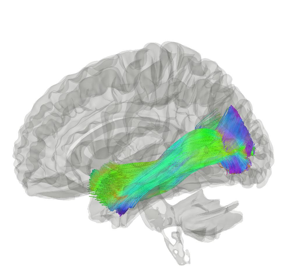 Tractography showing inferior longitudinal fasciculus on a population-averaged template